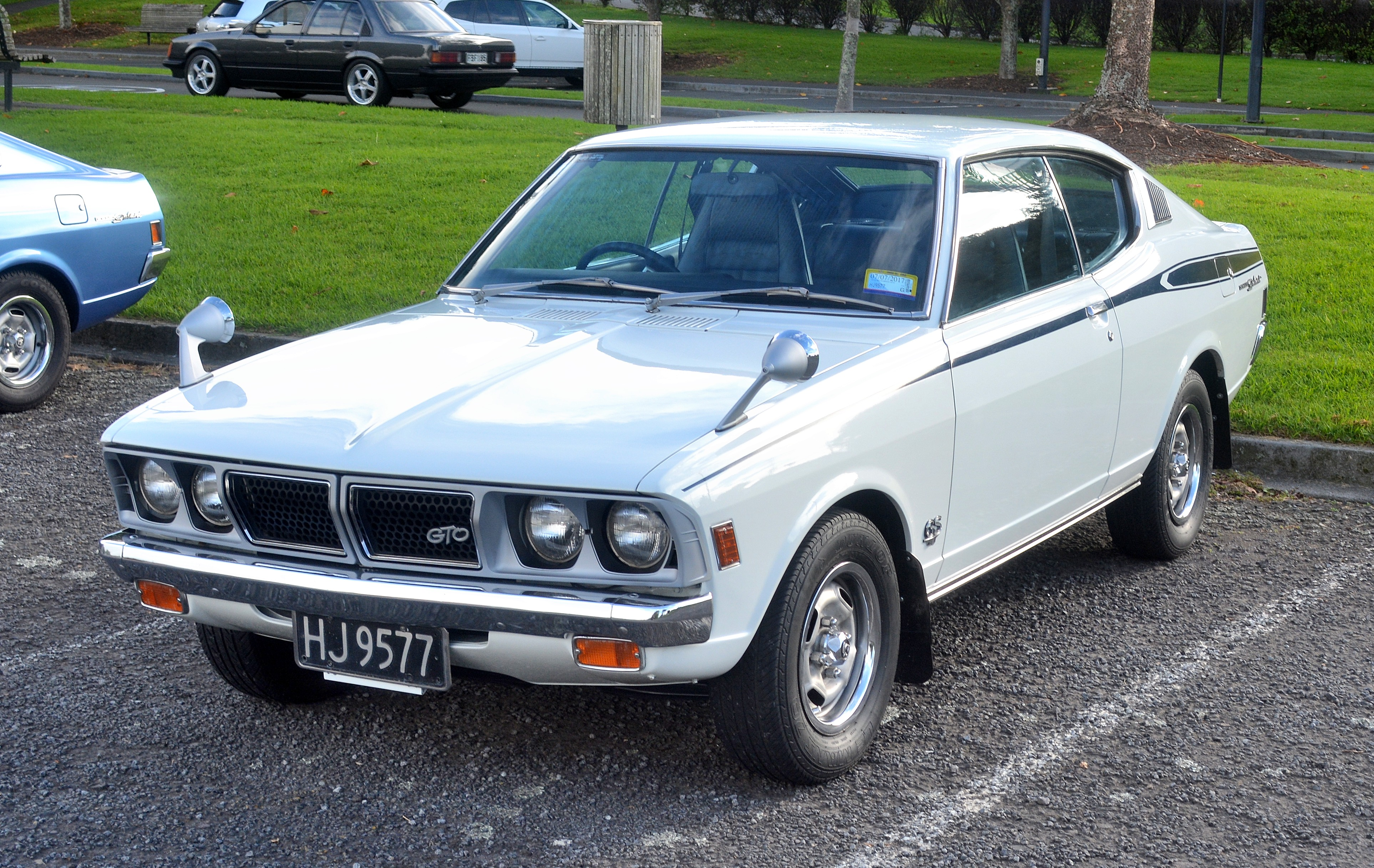 Northcote New Zealand